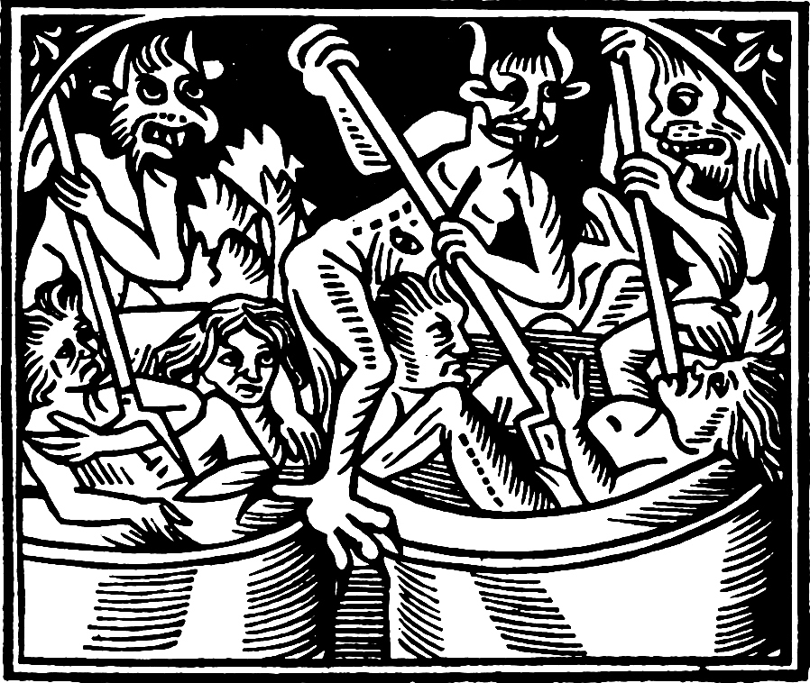 The torment of the cauldron, as seen by Knight Owein during his trip through St. Patrick's Purgatory.